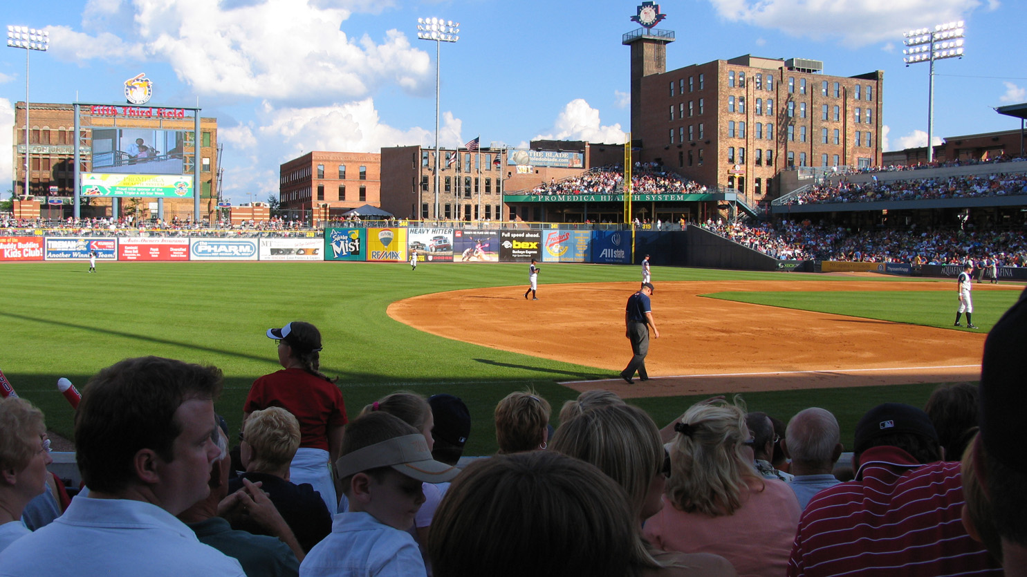 Mud Hens take the field